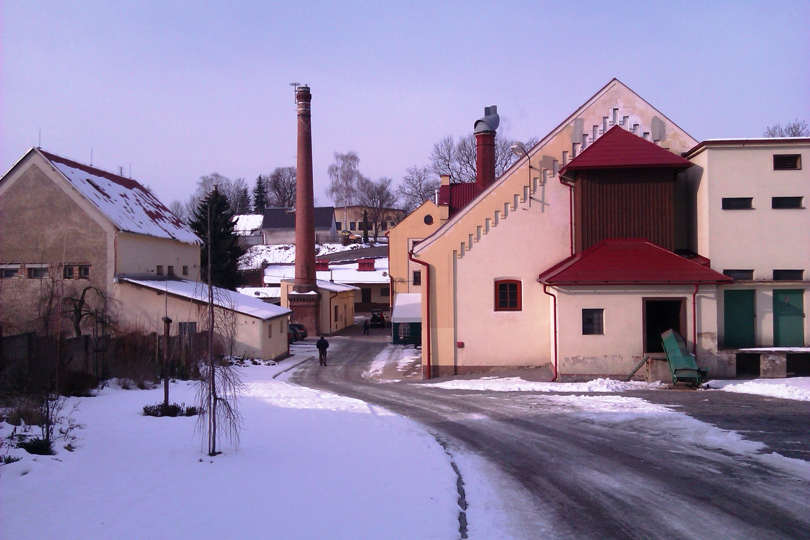 Brewery in Dobruška, Czech Republic